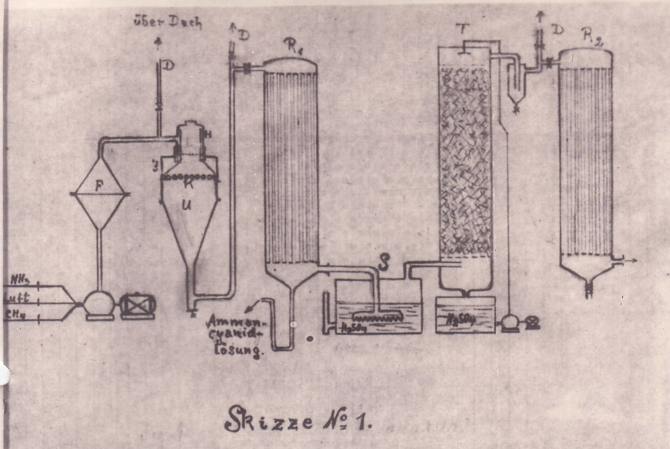 Diagramm of the Andrussow process from 1931 by Leonid Andrussow